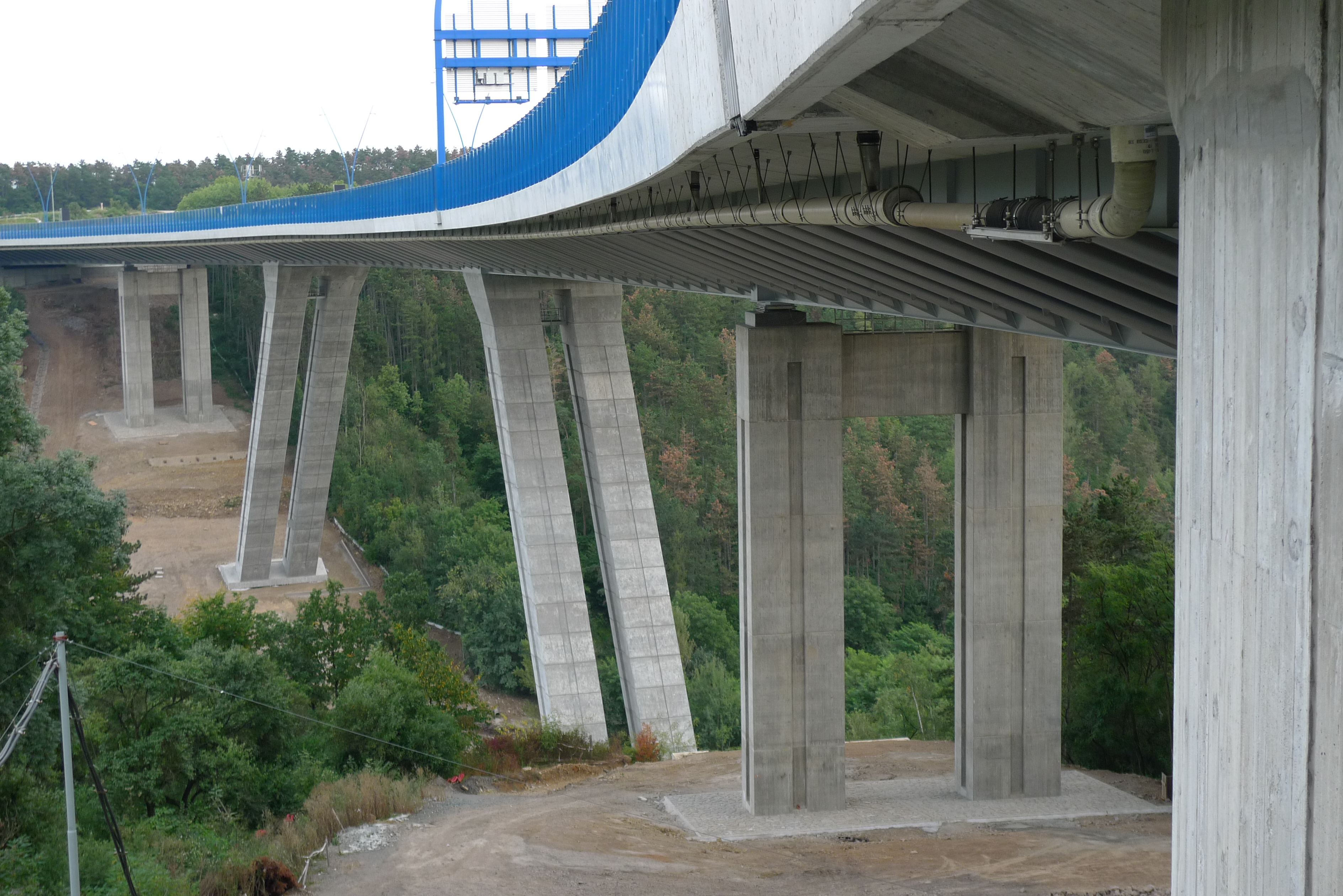 Bridge over Lochkovské údolí - view from Slivenec side. Expansion joint can be seen nearby top center of the image as well as to the right on the pipe-line.